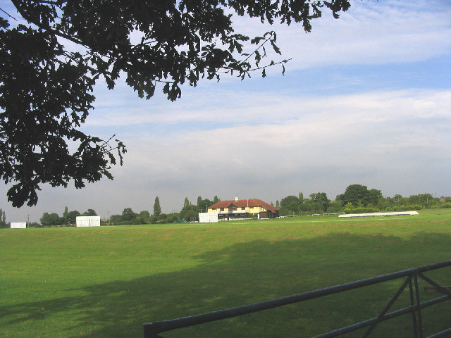 Billericay Cricket Club. They must be a very sporting lot in Billericay - this lane contains the town football club, tennis club and this magnificent cricket ground.